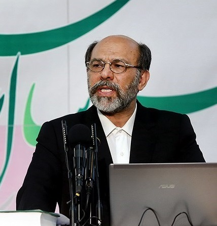 Hamid Mirzadeh